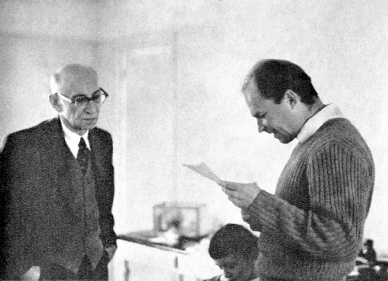 Antoni Słonimski, (1895-1976) Polish poet, and Piotr Słonimski, (1922-2009) French scientist